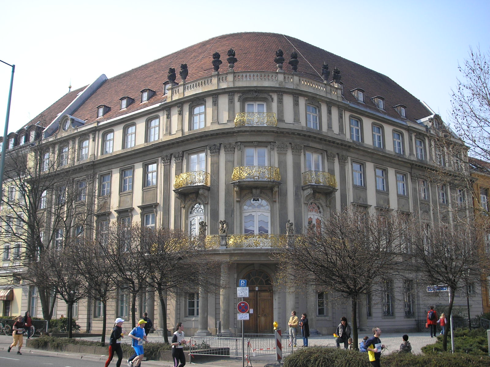 The Ephraim-Palais in Berlin, located in the Nikolaiviertel.